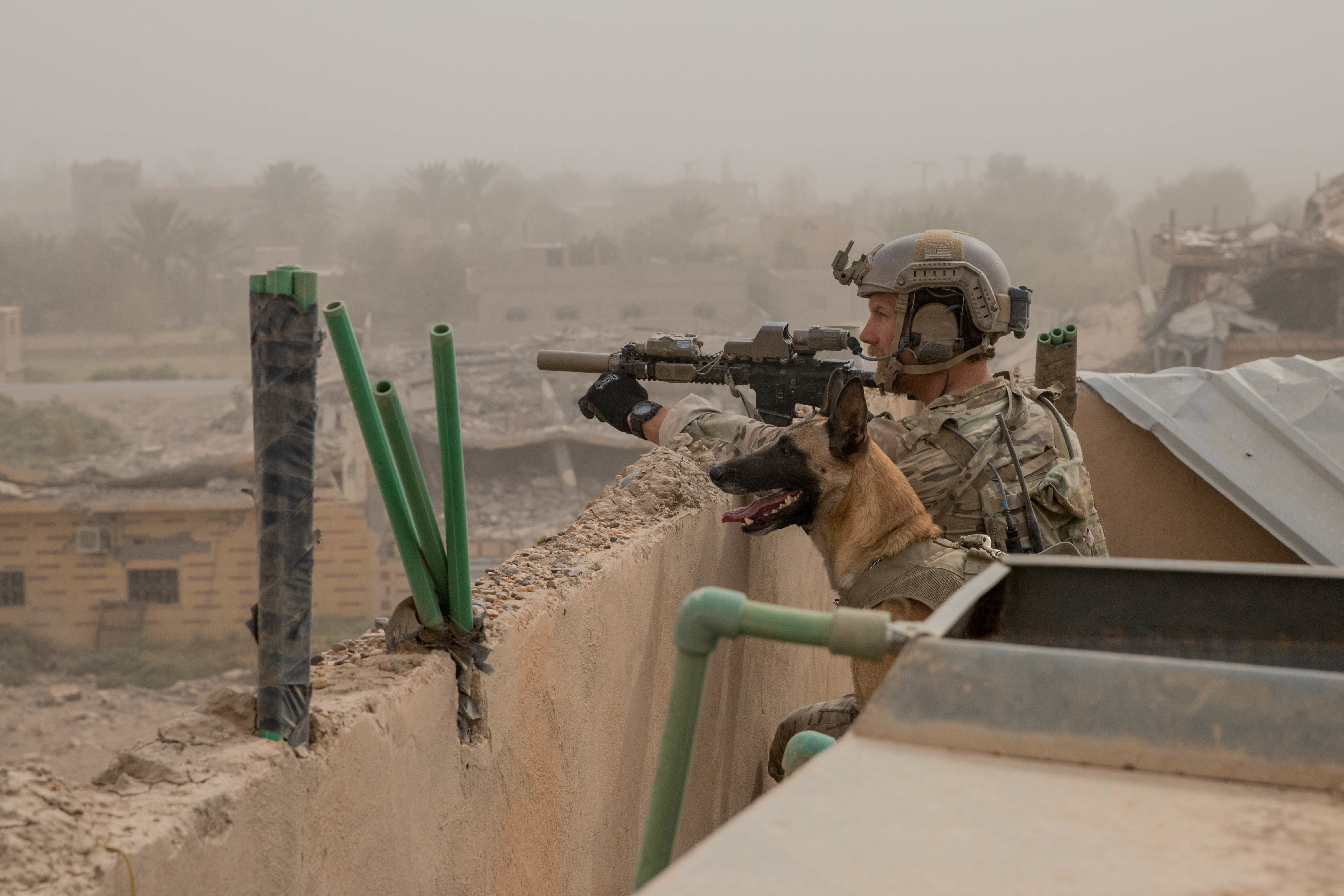 A Multi-Purpose Canine team provides security for a nearby mortar firing position in Deir ez-Zor province, Syria, October 2018